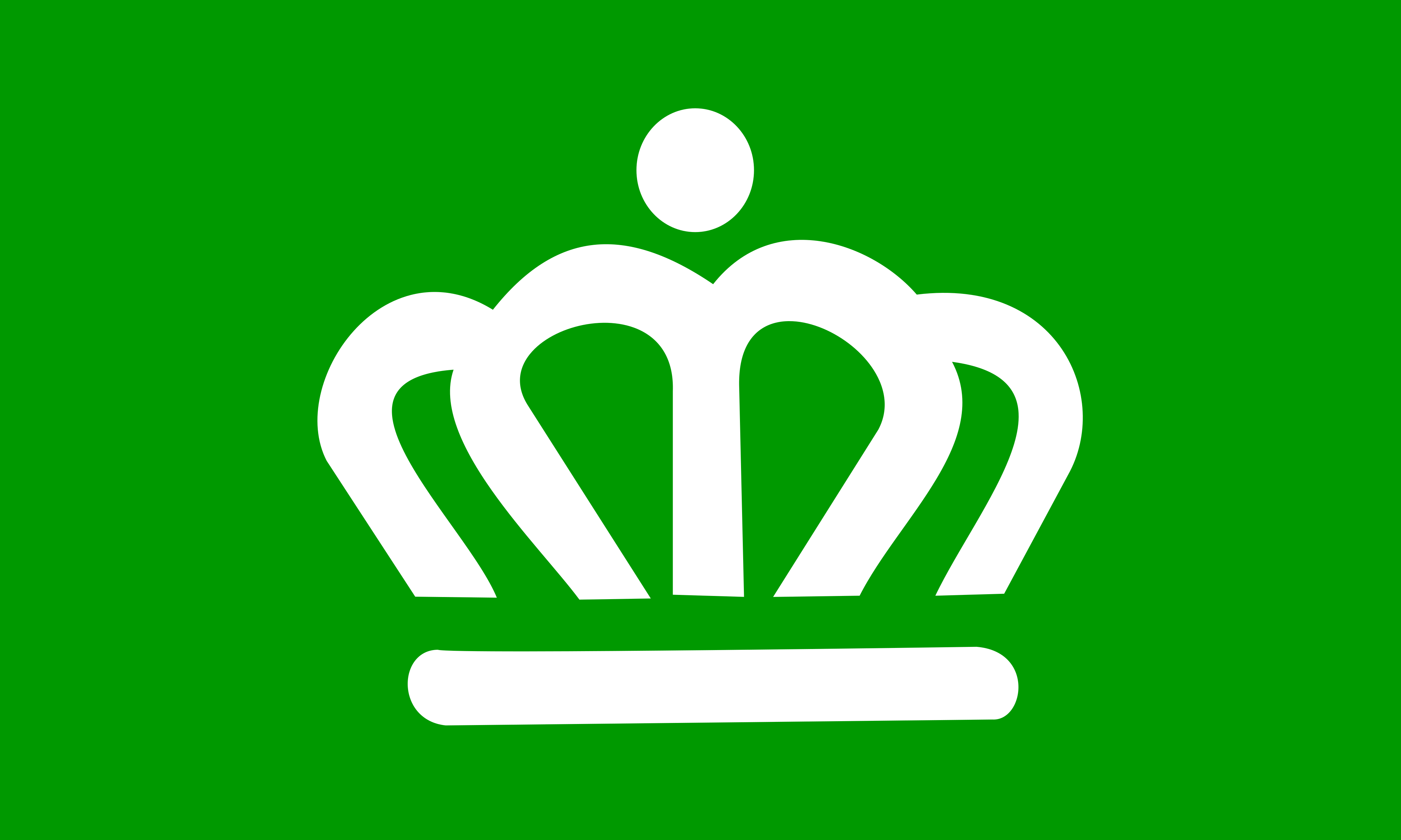 These two flags are co-official for the city of Charlotte, North Carolina